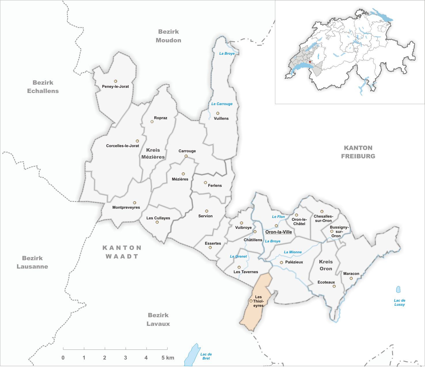 Municipality Les Thioleyres